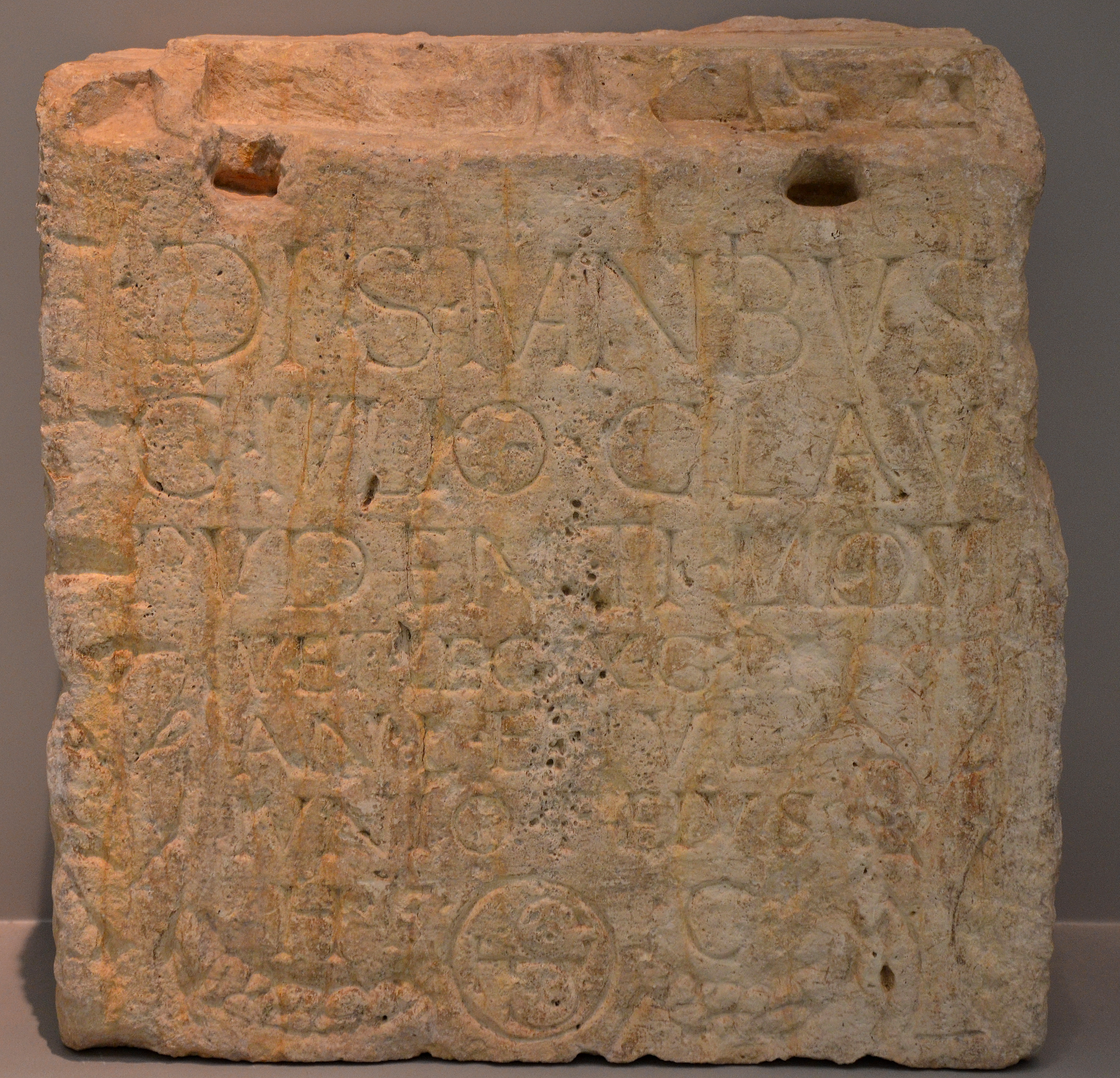 Museum het Valkhof, Nijmegen (Netherlands). CIL XIII 8735 = AE 1979, 414: Dis Manibus / G(aio!) Iulio Clau(dia) / Pudenti [I]u[l(ia)] E[m]ona / vet(erano) leg(ionis) X G(eminae) P(iae) F(idelis) / an(norum) L et Iul(io) / Iunio f(ilio) eius / o(pto) s(it) t(ibi) t(erra) l(evis) / h(eres) f(aciendum) c(uravit)